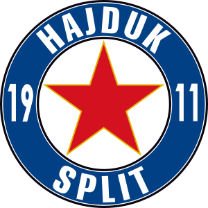 Historic logo of the HNK Hajduk Split football club.